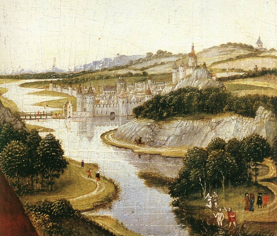 Landscape on the Triptych of the Braque family